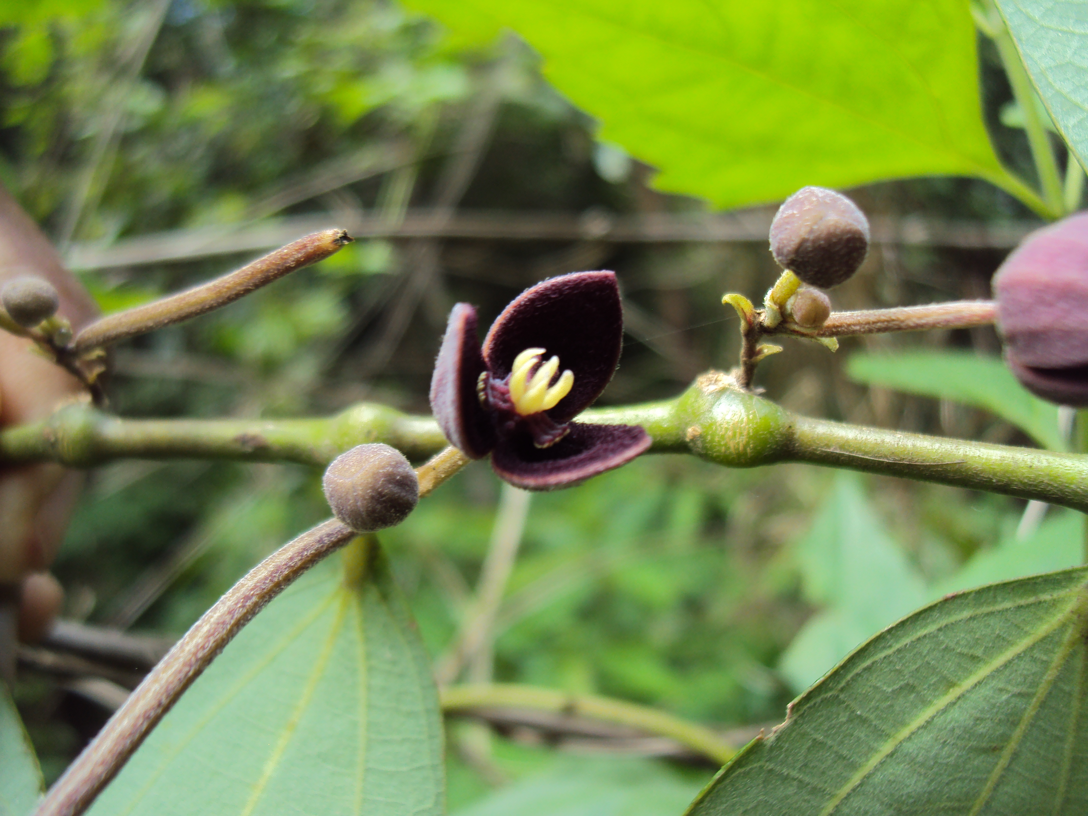 Thottea sivarajanii